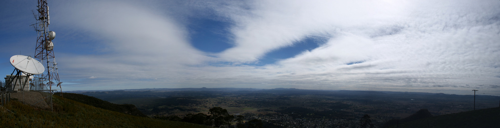 View from Mount Coombermellon near Rylstone NSW. Looking towards northwest. Kandos in middle of photo, Rylstone to the right of photo.